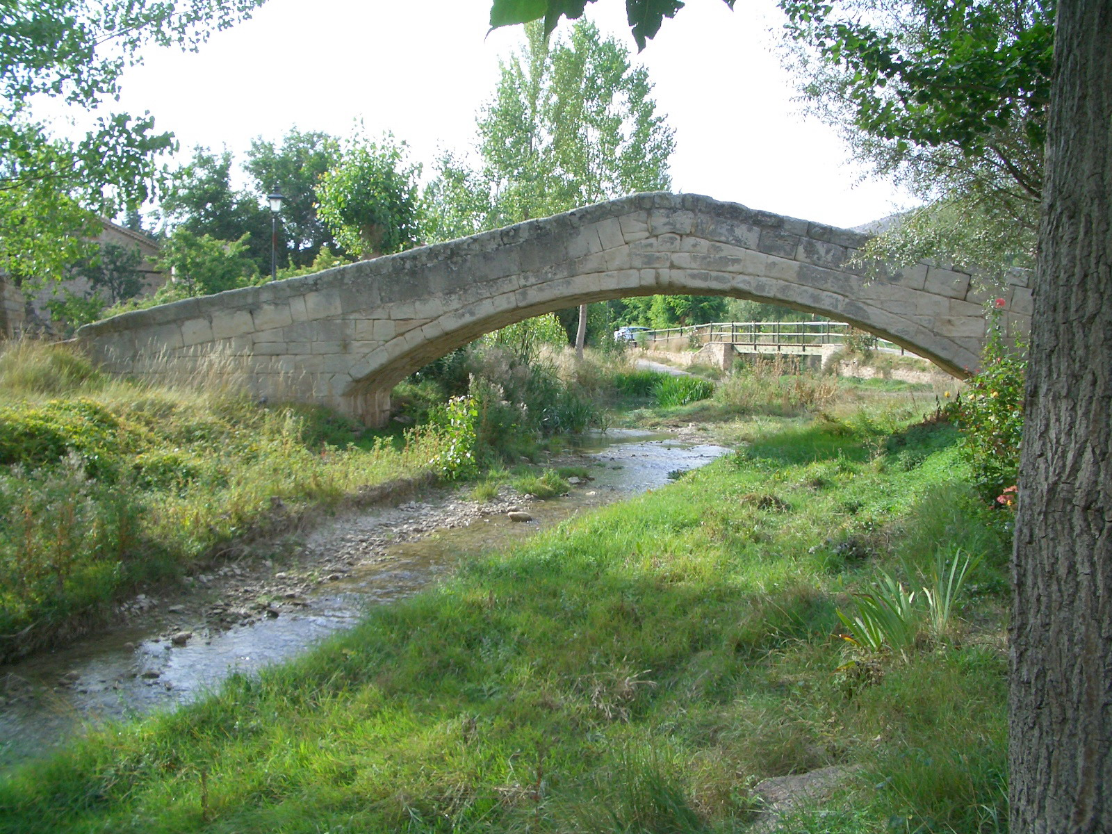 Medieval bridge on the Guadalope at Miravete de la Sierra (Teruel, Spain)